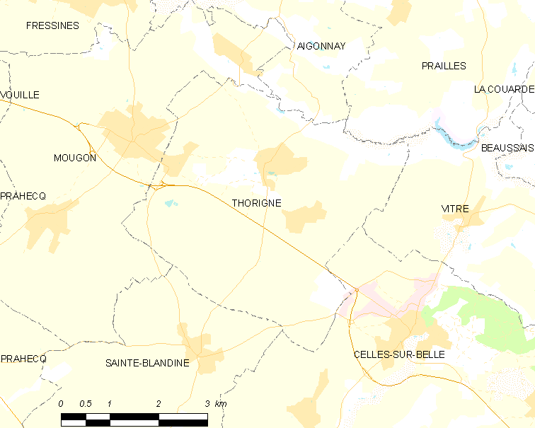 Map of French municipality Thorigné